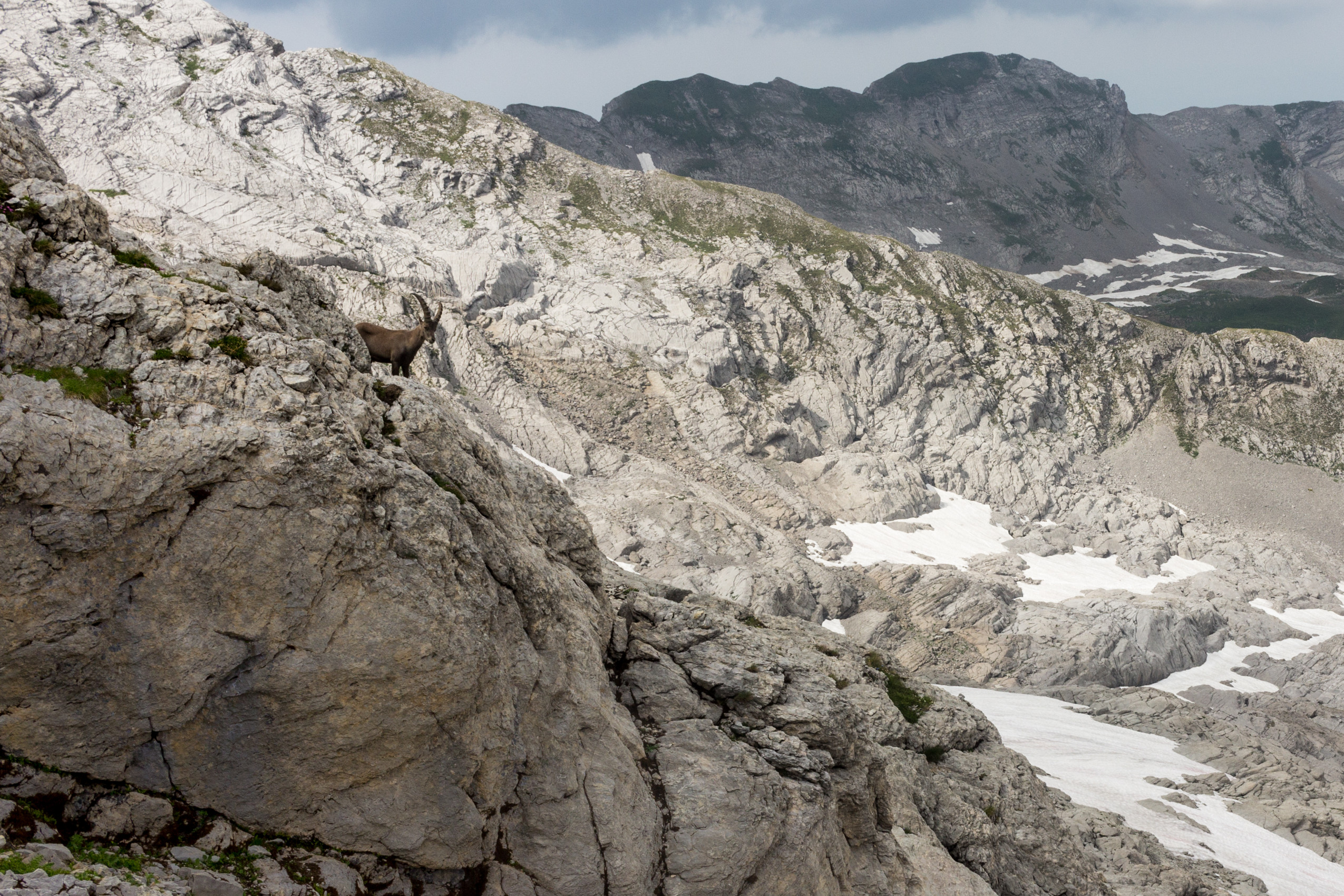 An Alpine Ibex on the Lisengrat (Alpstein, Switzerland).